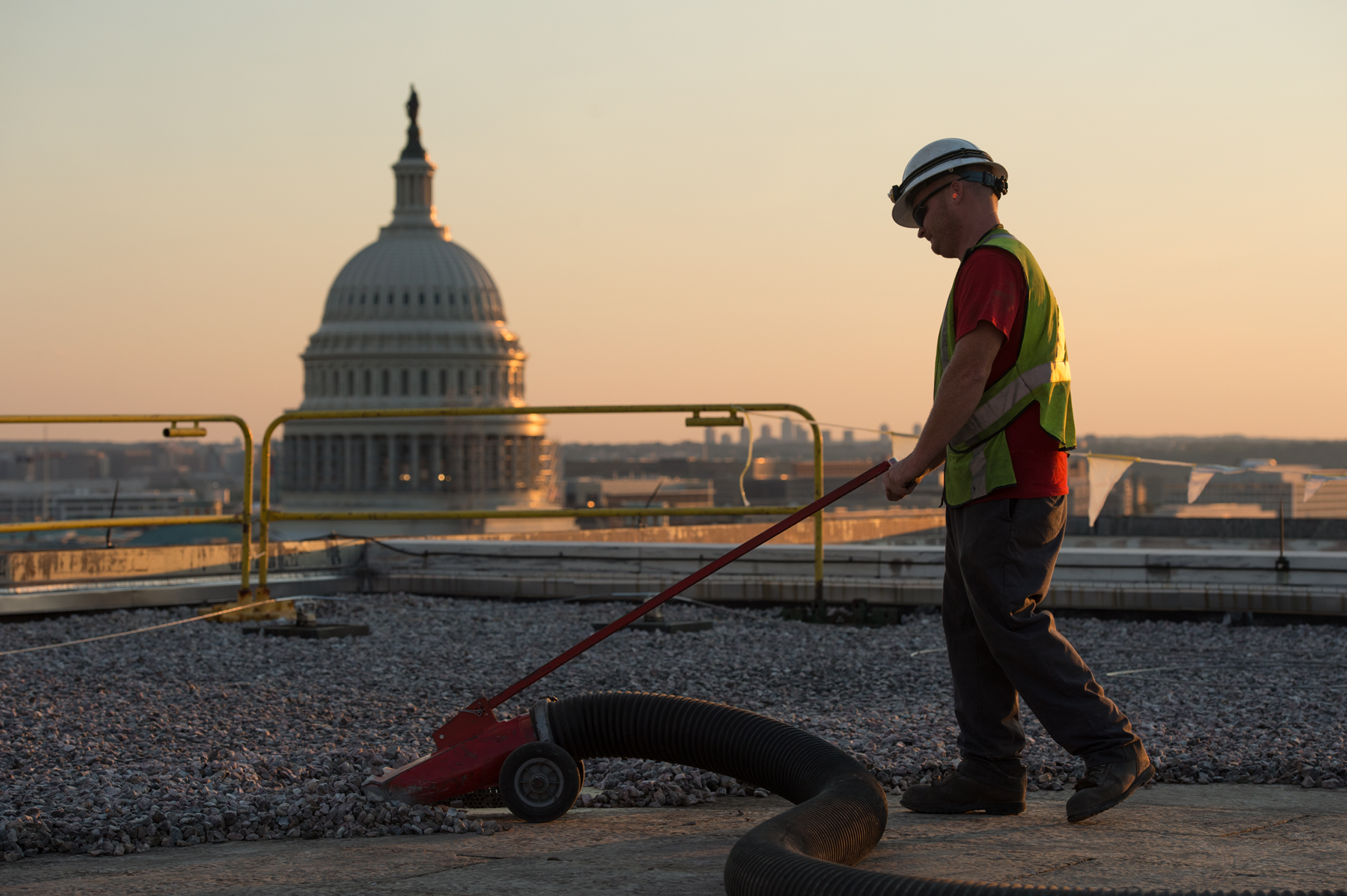 Workers remove ballast from atop the Senate Hart Office Building.